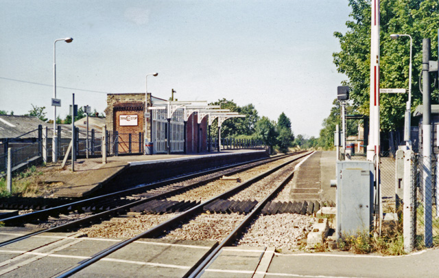 Elmswell Station, View westward, towards Bury St Edmunds; ex-GE Haughley - Bury St Edmunds - Ely/Cambridge secondarymain line.